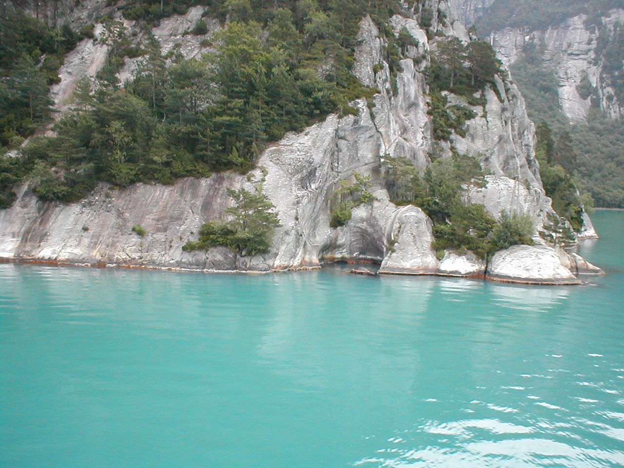 Pothole (hole eroded by a rock) in Lysefjorden, Rogaland